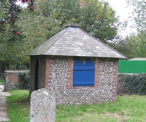 Gravewatchers Hut - Warblington Church Graveyard (Cropped version uploaded 28 January 2020 by User:Hassocks5489)